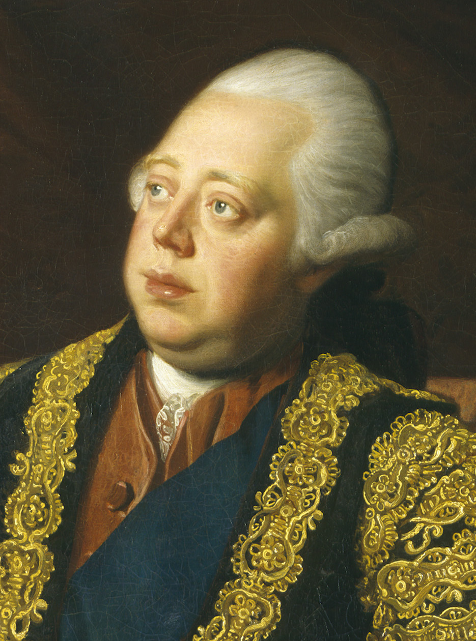 Portrait of Frederick North (1732–1792)